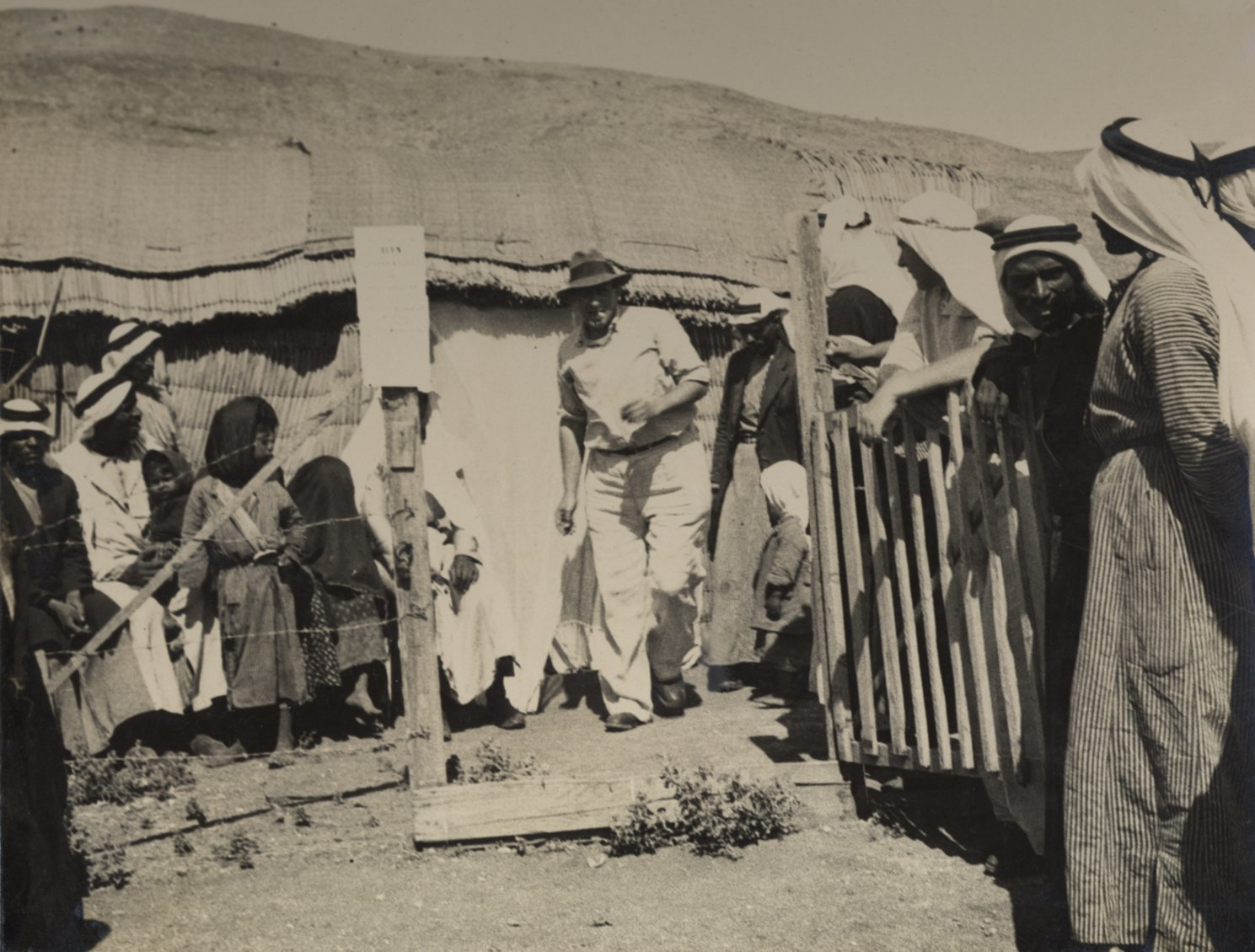 Health in Israel